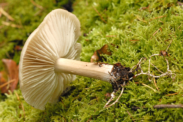 Megacollybia platyphylla from Commanster, Belgium. The determination of the species shown in this picture has been verified.